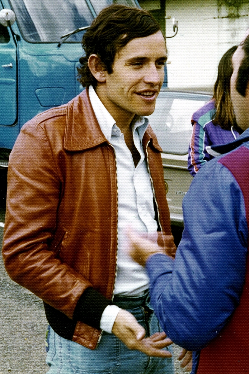 Belgian racing driver Jacky Ickx pictured in the summer of 1975 at Spa-Francorchamps in Belgium while talking to German racing team owner Willi Kauhsen. Photo taken by myself.